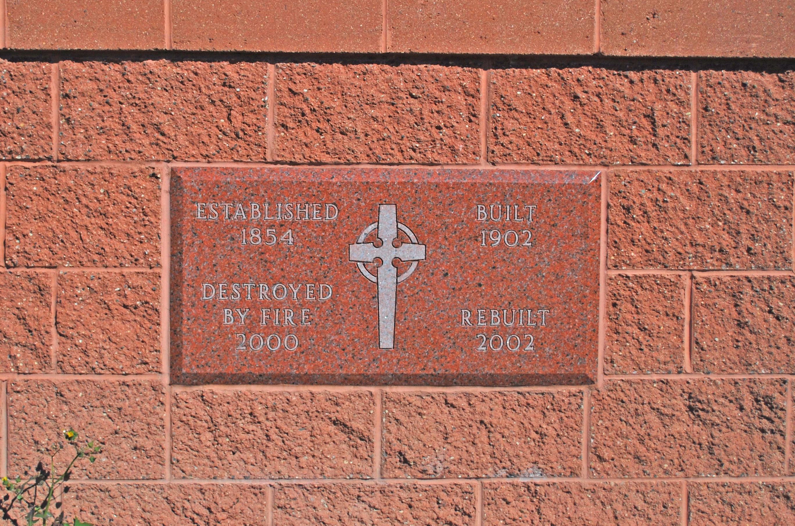 First Presbyterian United Cornerstone--Sault Ste Marie, MI